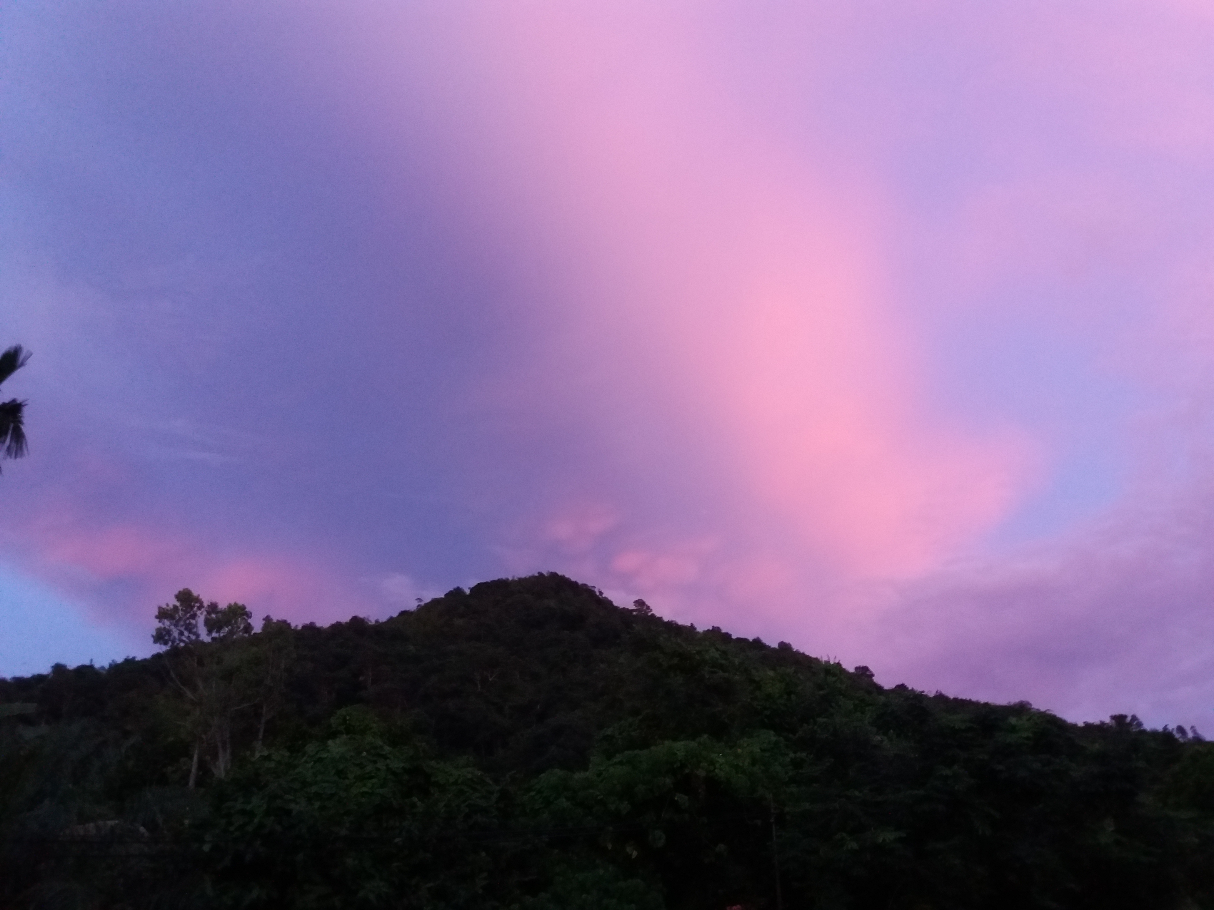 Nature hike up Bukit Perahu